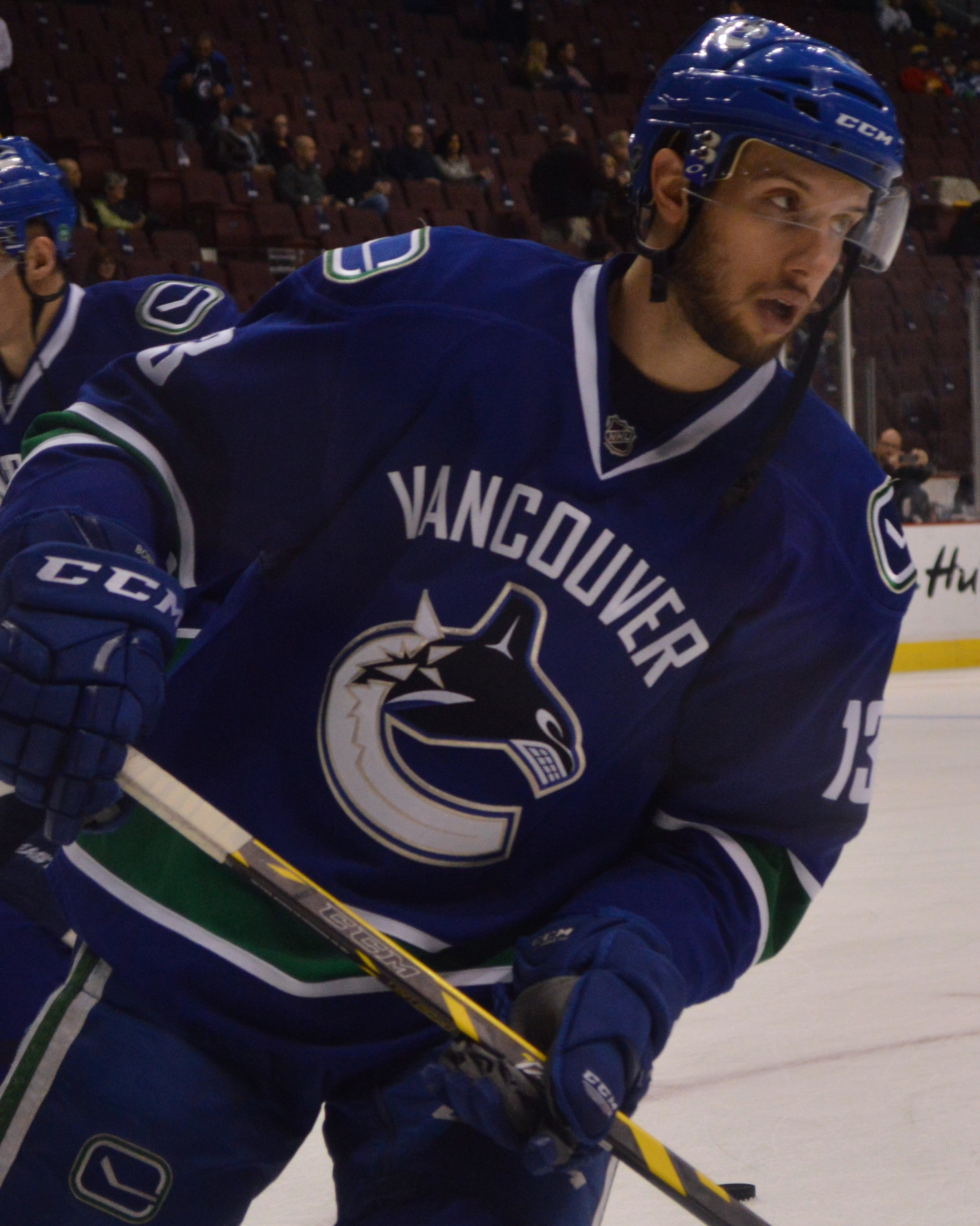 Vancouver Canucks centre Nick Bonino during warm-up prior to a game against the Winnipeg Jets at Rogers Arena on February 3, 2015.